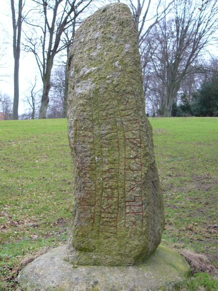 Bjäresjö runestone DR 289 (Bergsjöholm)